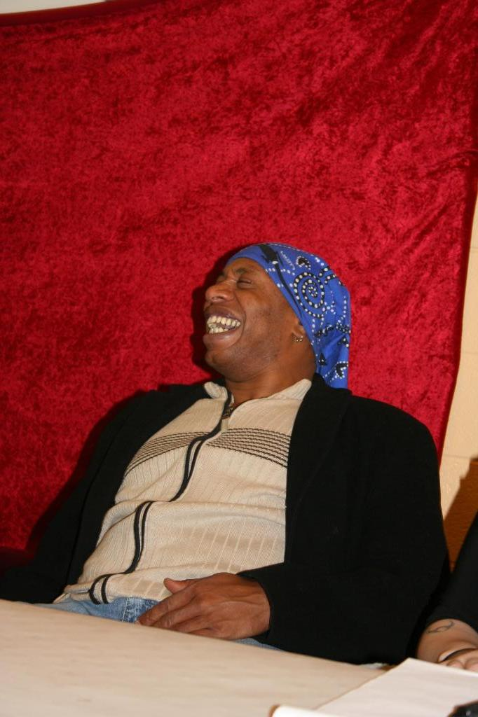 2 Cold Scorpio at Ian Rotten's Retirement Roast